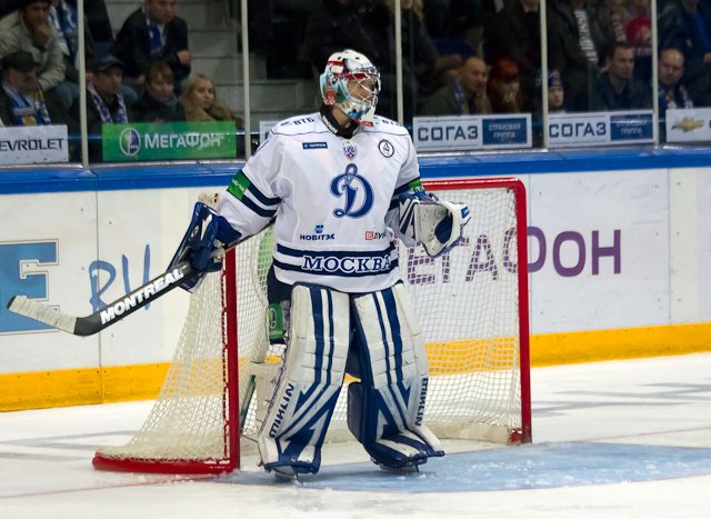 Dynamo Moscow goalie Alexander Eremenko during KHL game against Amur Khabarovsk on November 1, 2011.